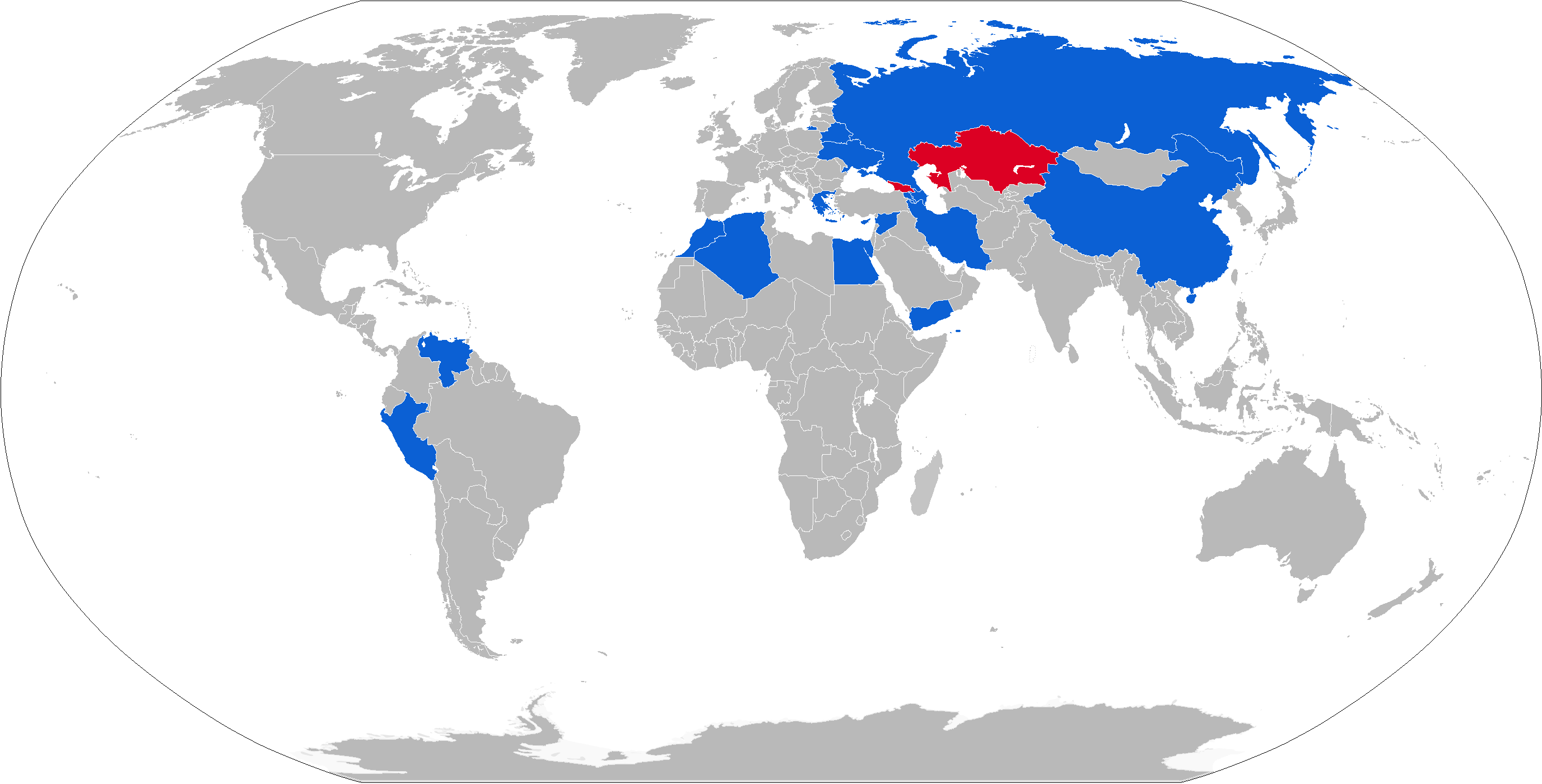 Map of 3K95 operators in blue with former operators in red